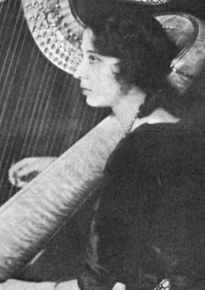 A young white woman with dark hair, in profile, seated with a harp.